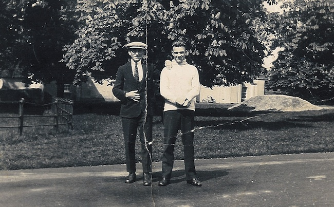 A photograph of two members of the, recently-formed, Garda Siochana (Irish Police Force). On the left, Francis Patrick (Frank) Hand and, on the right, John Joseph (Jack) Chase.